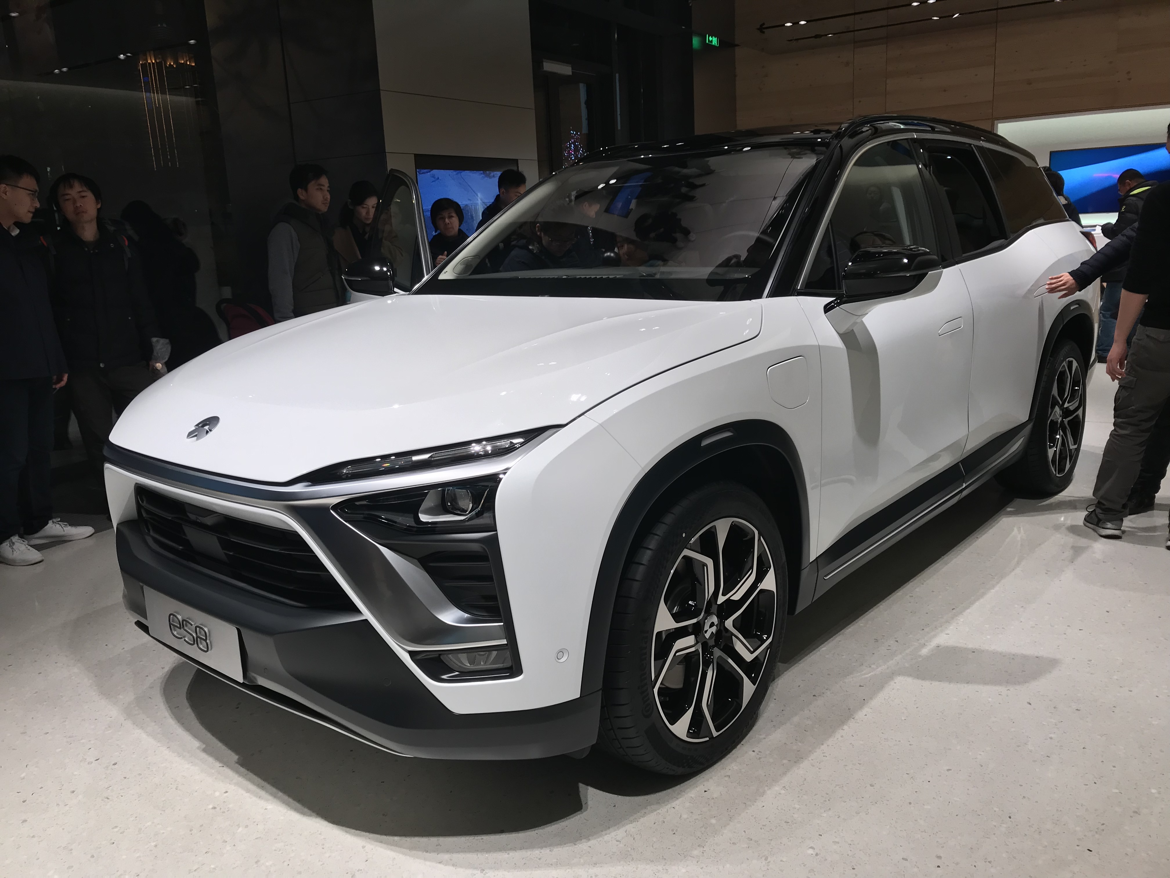 Nio ES8 front view.